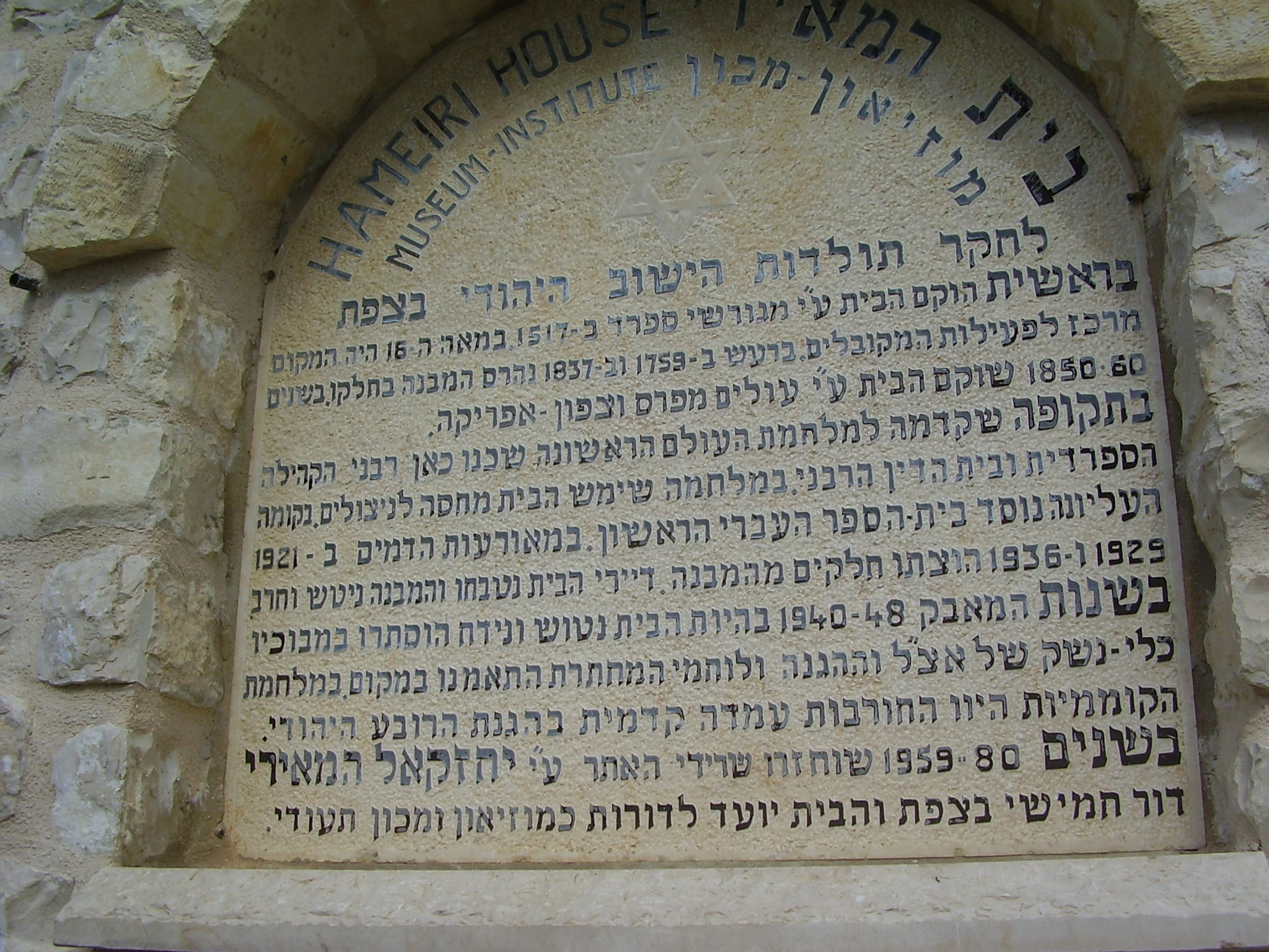 hameiri museum, safed